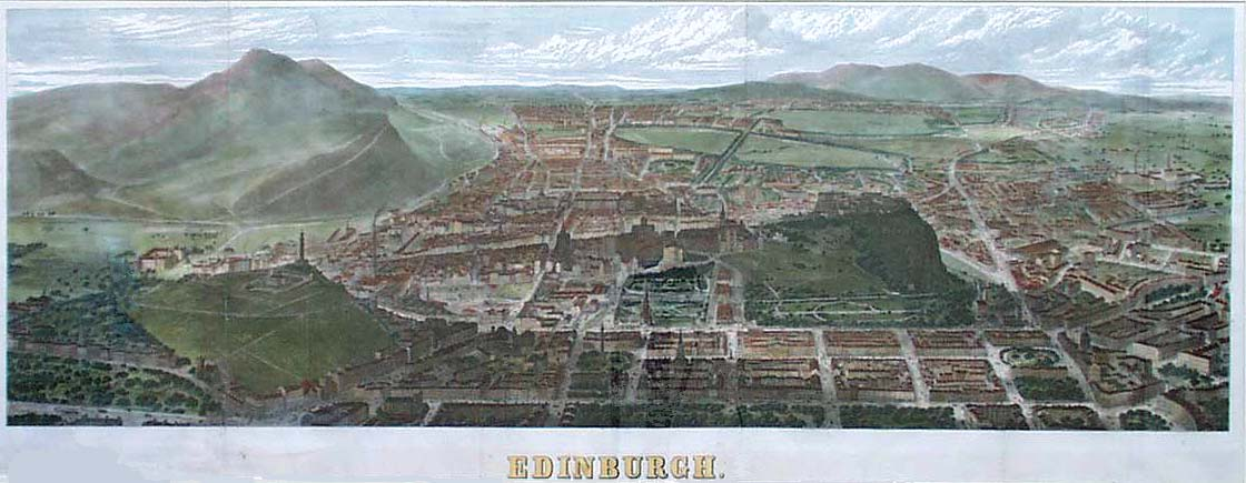 A panorama of Edinburgh published by the Illustrated London News in 1868. The grid pattern of New Town appears in the foreground. Edinburgh Castle is on the hill centre right, and the Royal Mile can be traced leading down from it to the Holyrood Palace. The hill at the top left is Arthur's Seat.